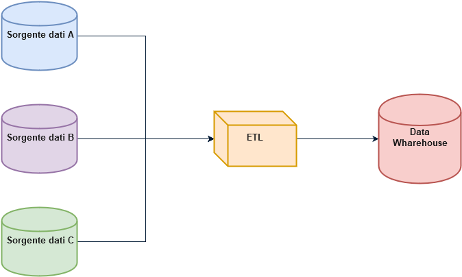 Datawarehouse